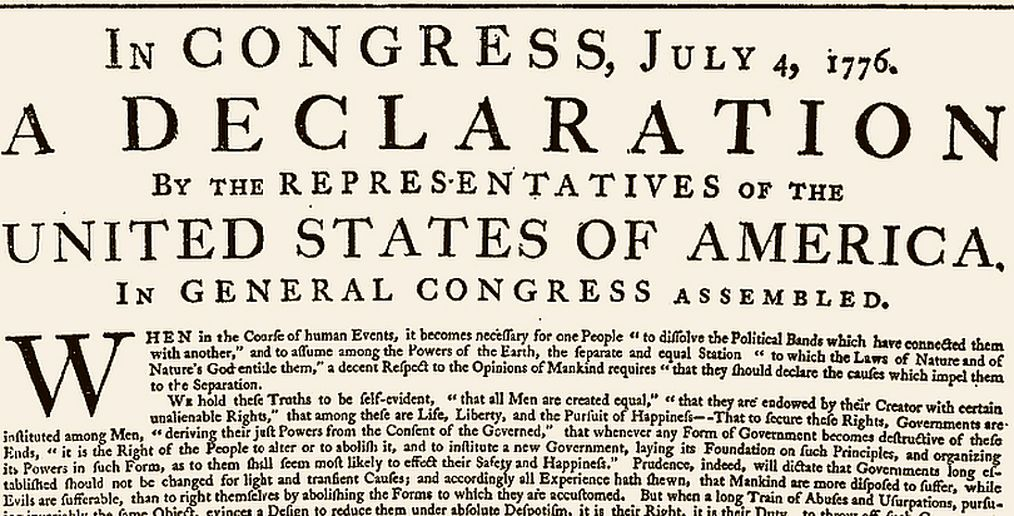 Original Declaration of Independence as printed on July 4, 1776, top of page 1. This is the original printing sent to the states & Army. It differs from the "engrossed" copy which was made later